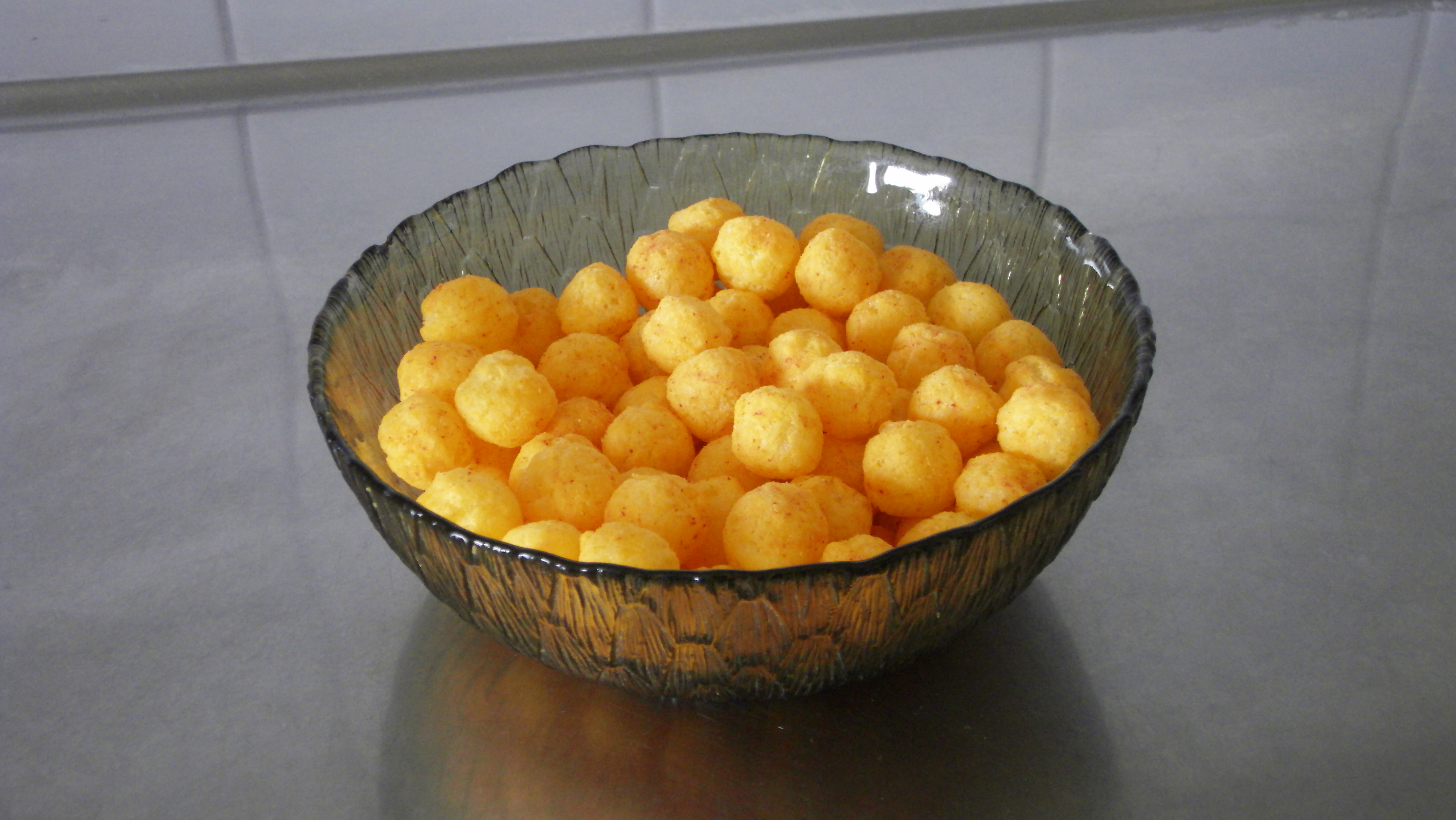 Snack food with the taste of cheese and nacho by OLW.